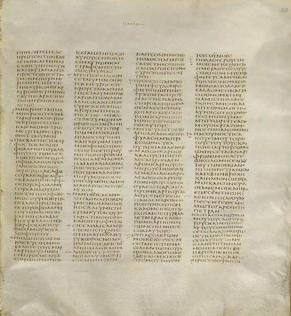 the page of the codex with text of Matthew 6:32-7:27